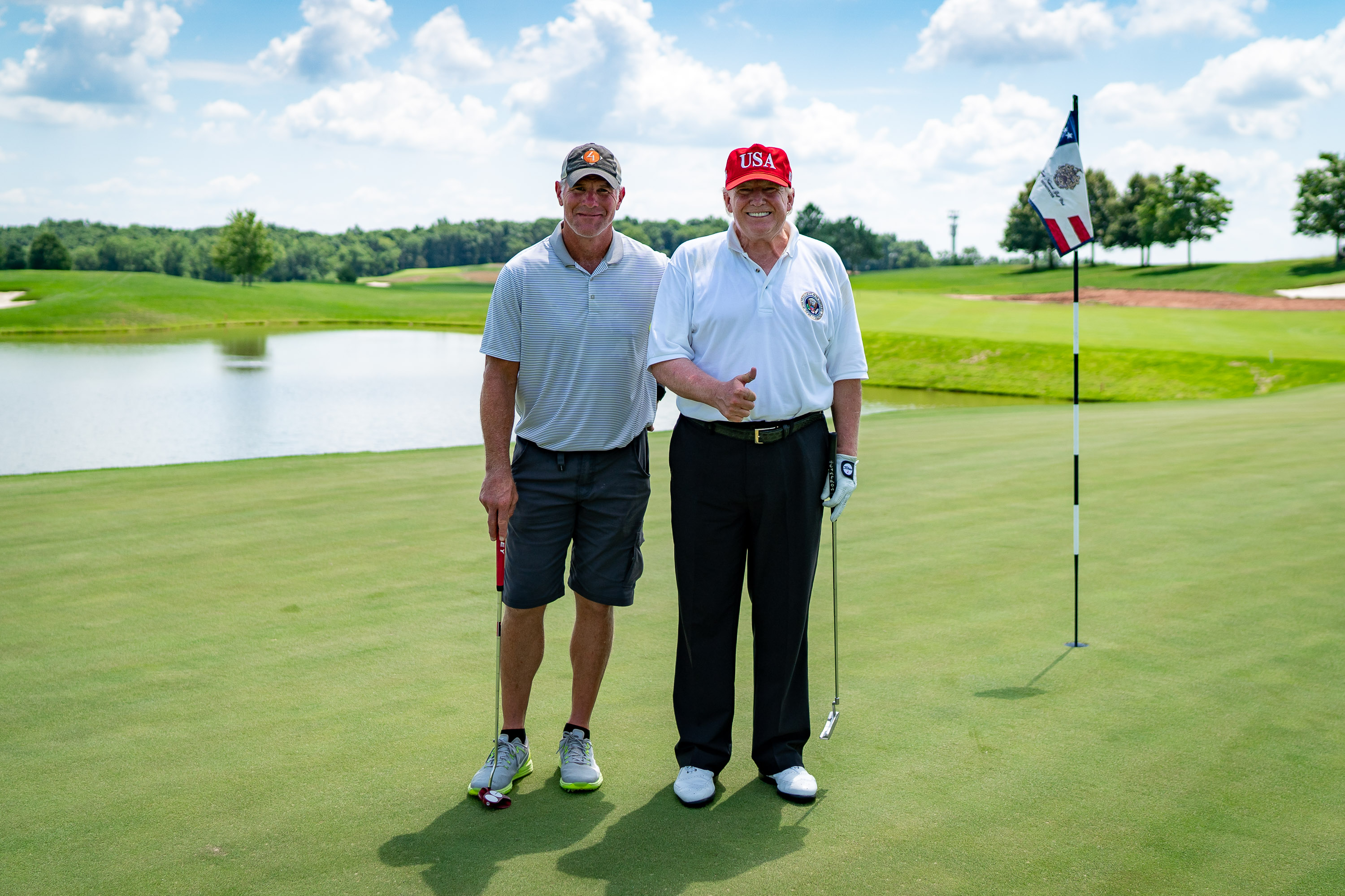 President Donald J. Trump poses for a photo with football legend Brett Favre at Trump National Golf Club in Bedminster Saturday, July 25, 2020, in Bedminster, N.J. (Official White House Photo by Tia Dufour)